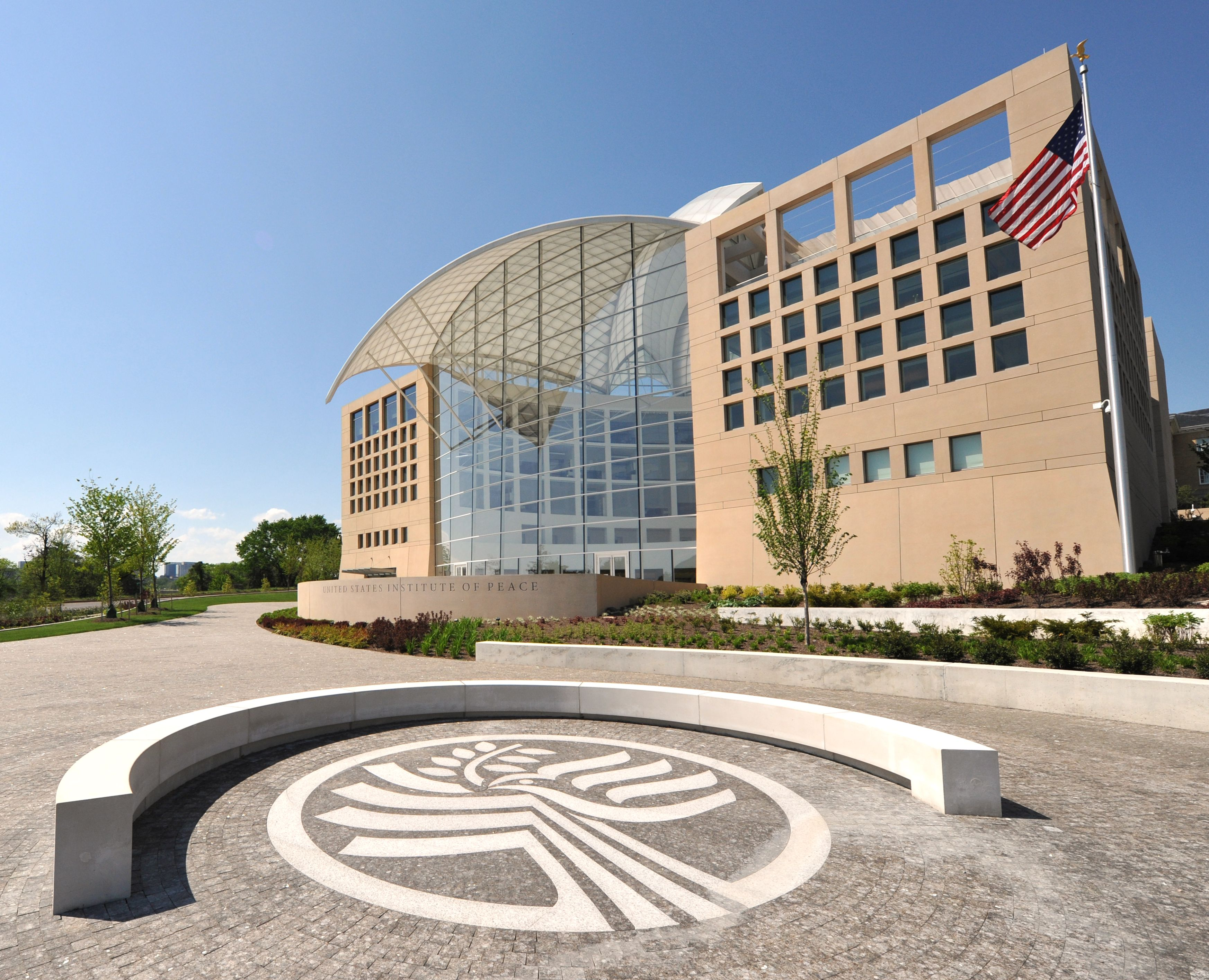 United States Institute of Peace Headquarters located at 2301 Constitution Avenue NW in the Foggy Bottom neighborhood of Washington, D.C.